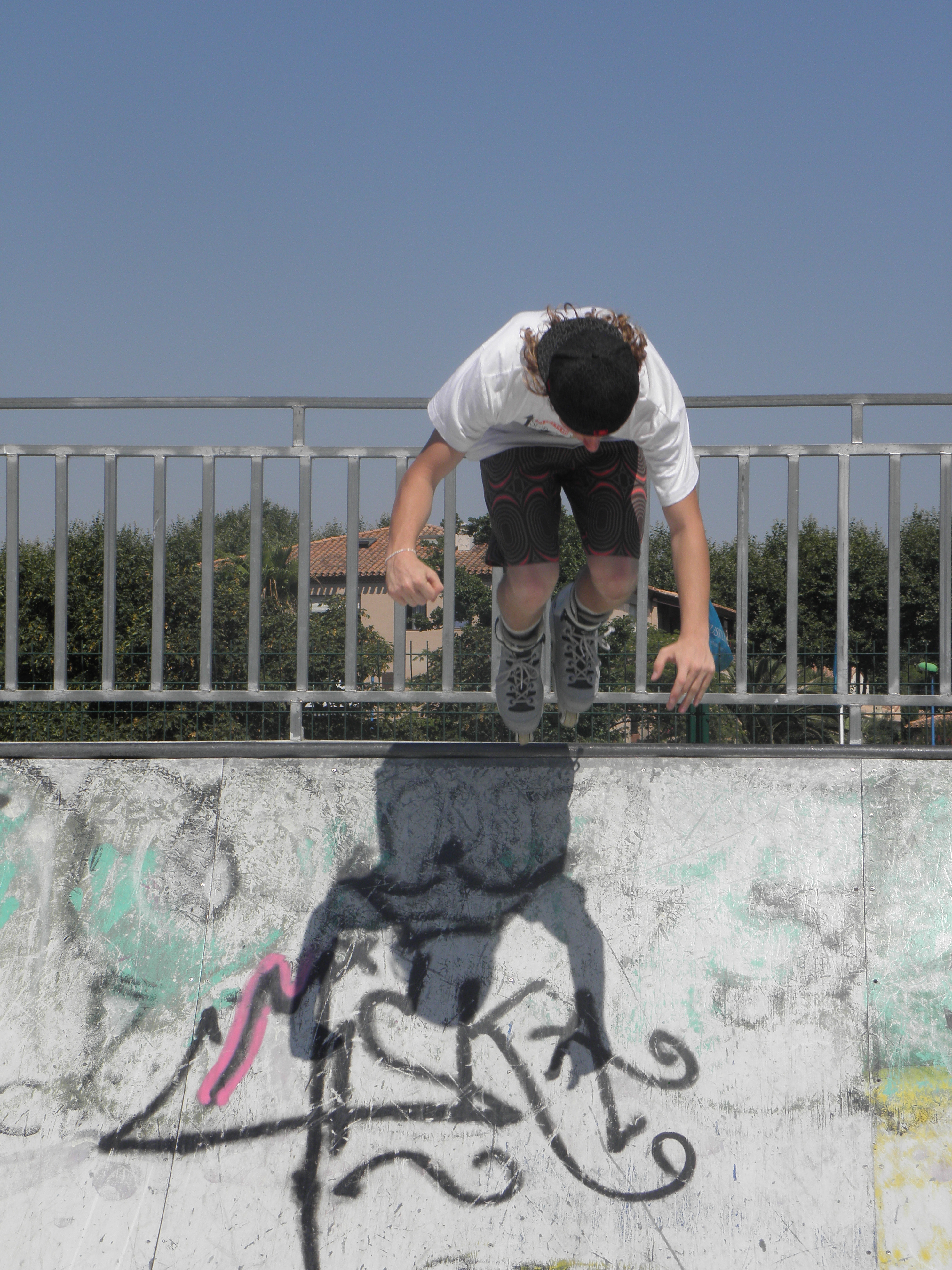 picture for the french article "roller agressif"